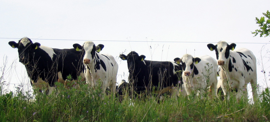 Calves in Germany